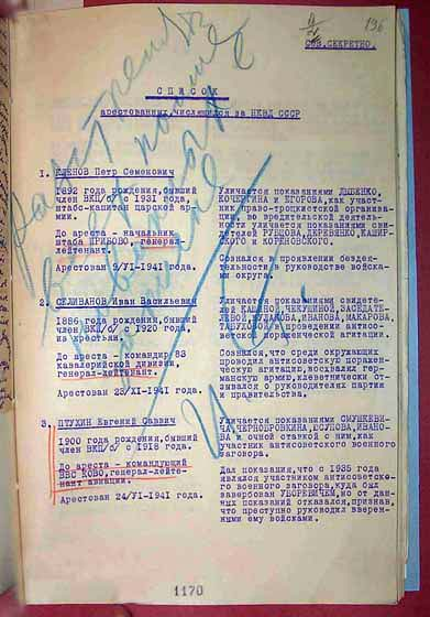 Top secret. List of the arrested at the NKVD. Approving resolution: Shoot all named in the list. Stalin. The first page of the list of 46 persons proposed by Lavrenty Beria for execution on January 29, 1942 (see Purge of the Red Army in 1941). All of them, including 17 Red Army Generals and one former People's Commissar (Minister), will be extrajudicially executed on February 23, 1942. Stored in the Archive of the President of the Russian Federation (АП РФ. Ф.3. Оп.24. Д.378. Л.196–211.).